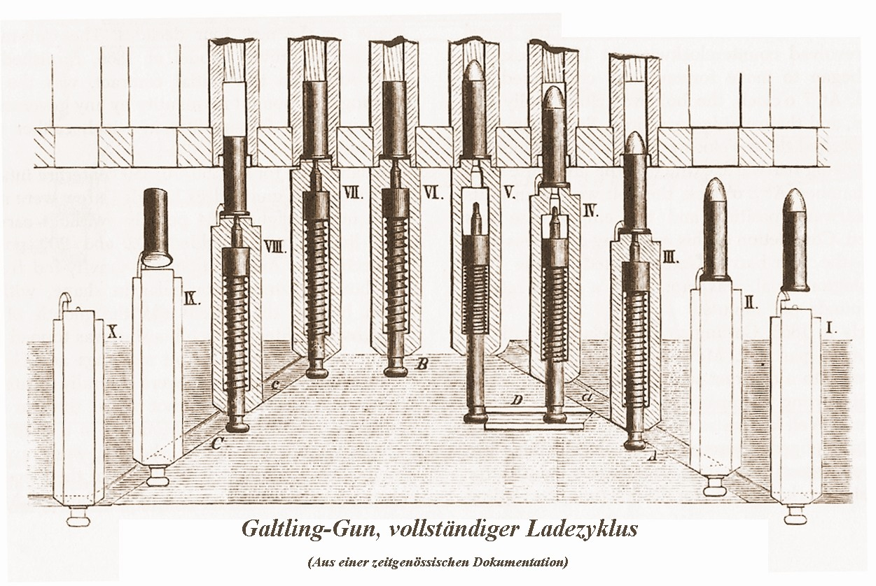 Gatling Gun, loading sequence (contemporary document)